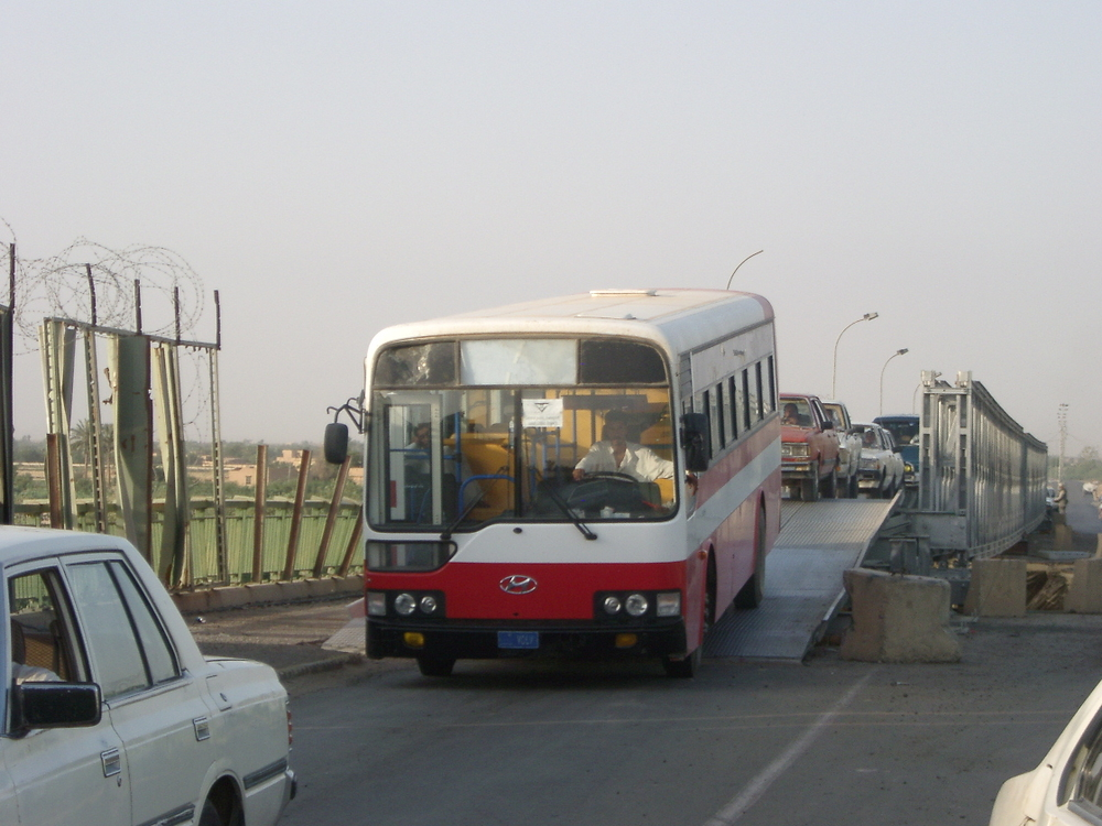 M&J